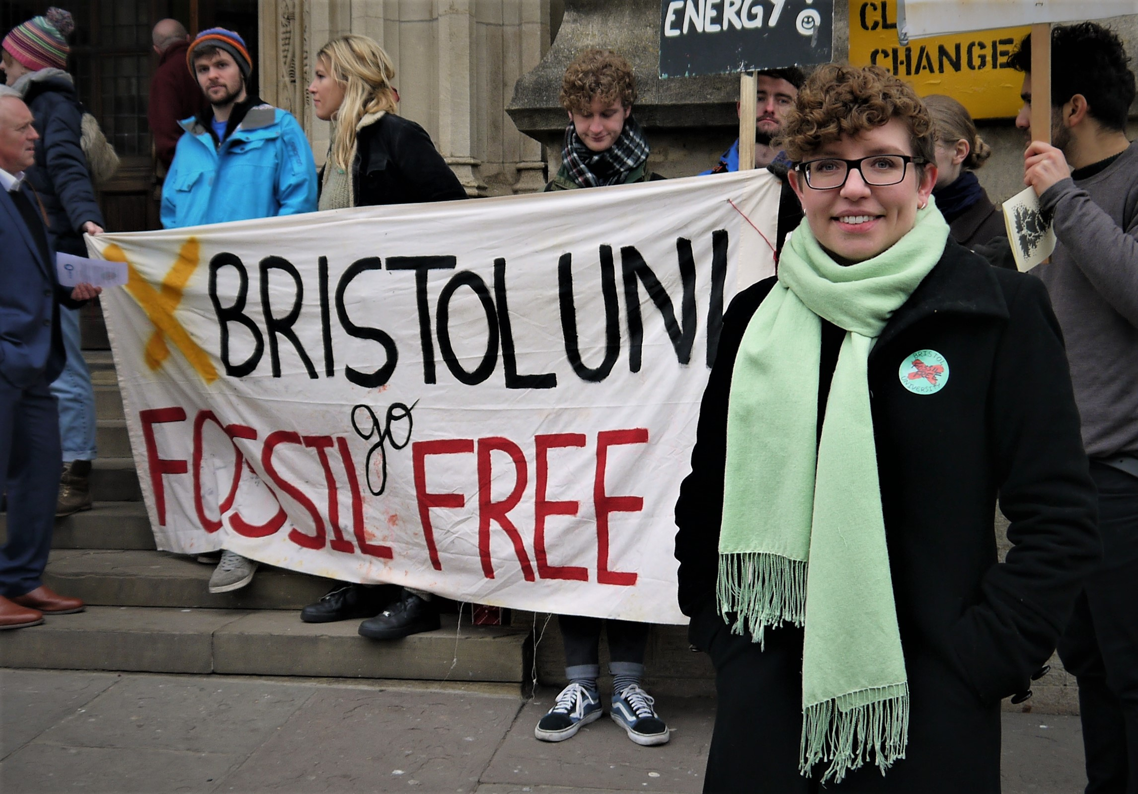 Councillor Carla Denyer outside the Wills Building in Bristol, campaigning for the University of Bristol to divest from fossil fuels.